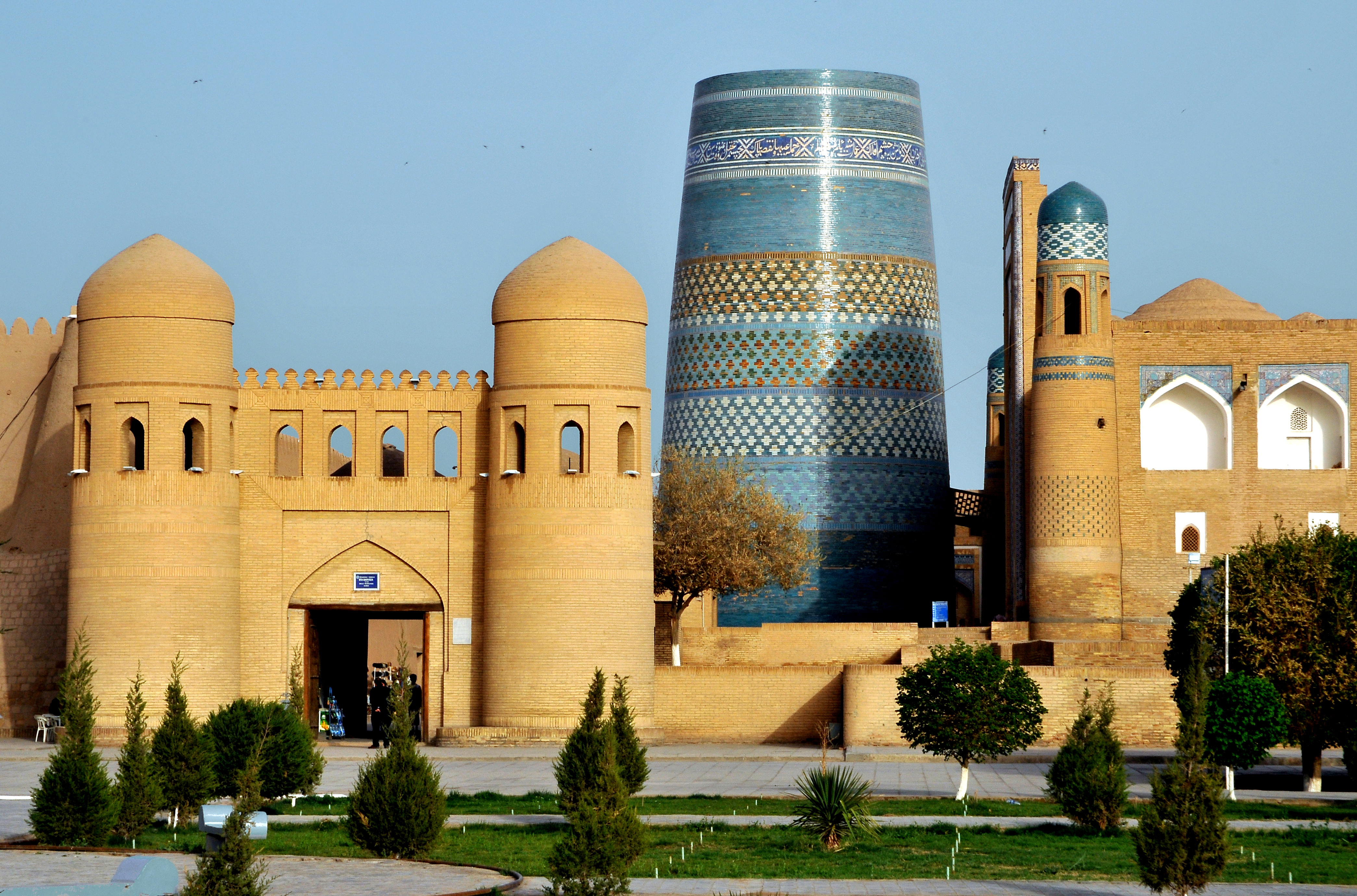 West Gate [Ota Darvoza], Kalta Minor and a part of Muhammad Amin Khan hotel (former madrasa) of . Khiva, Uzbekistan